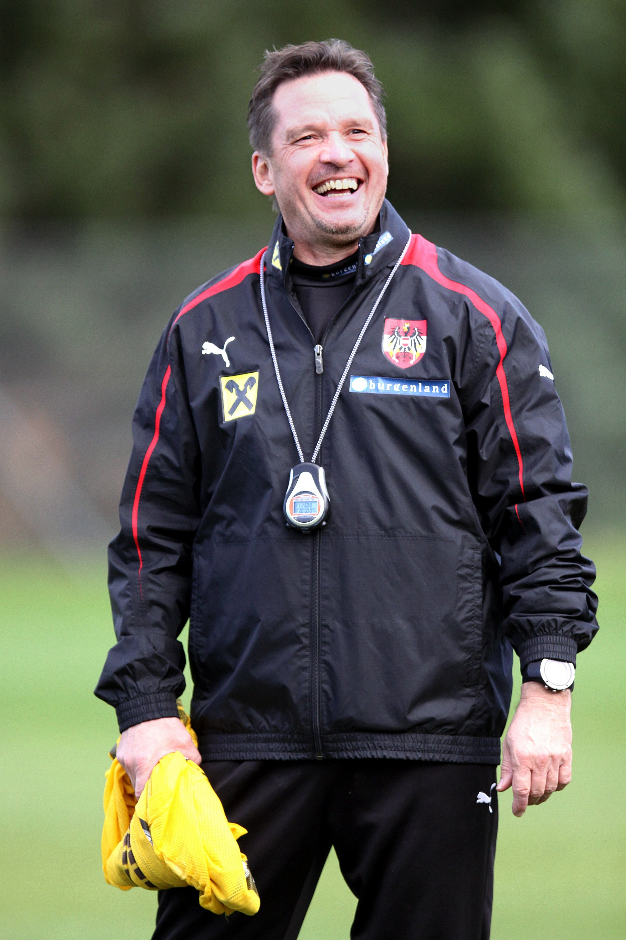 Teamcamp of the Austria national under-21 football team from 9. to 14. Novembber 2015 in Bad Erlach – The photo shows headcoach Werner Gregoritsch.